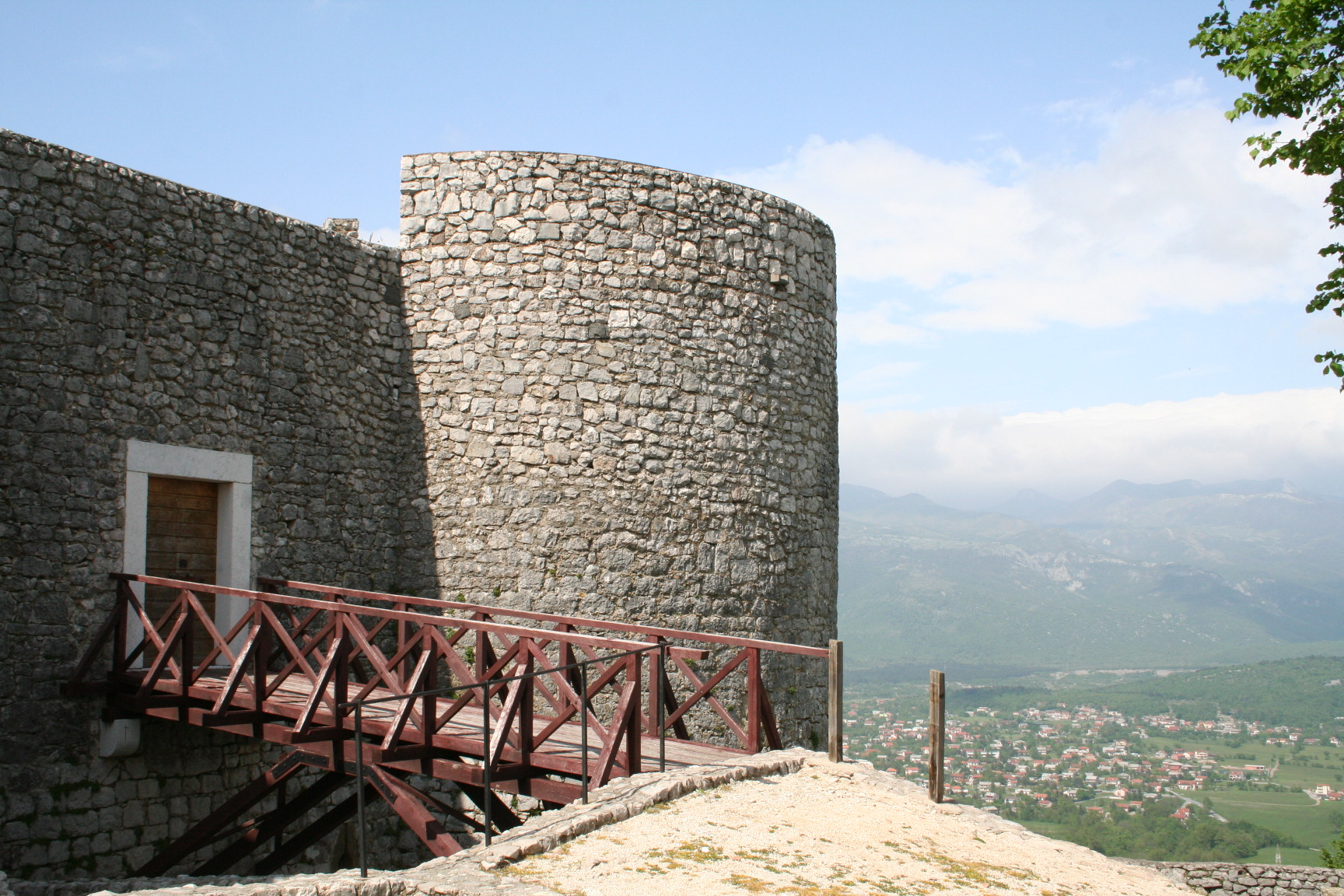 Grobnik Castle in April 2014.